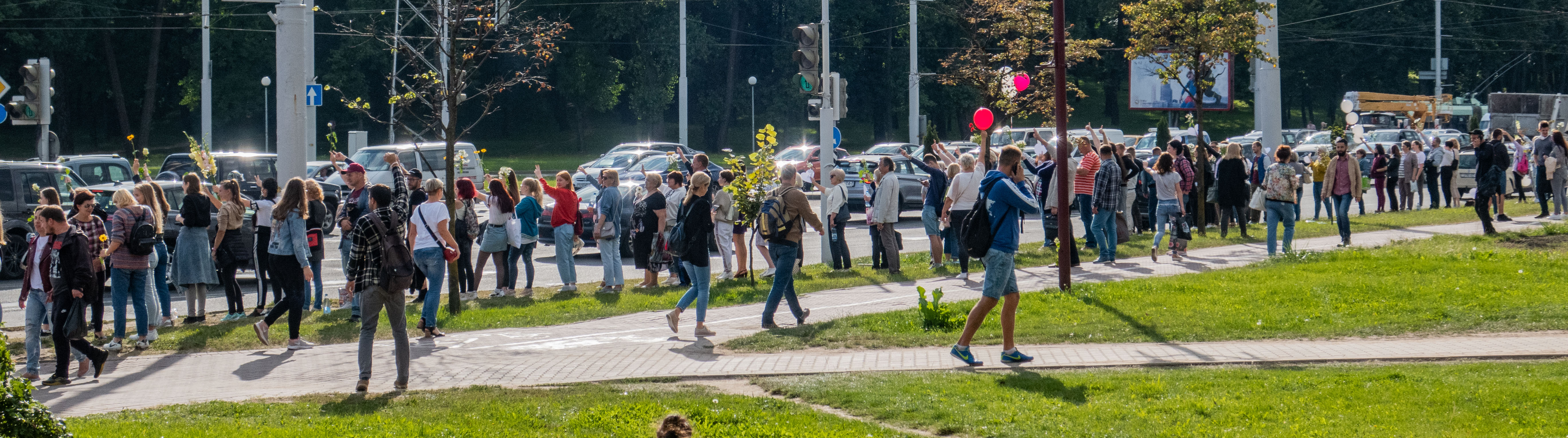 Local line of solidarity during mass protests. Minsk, Belarus